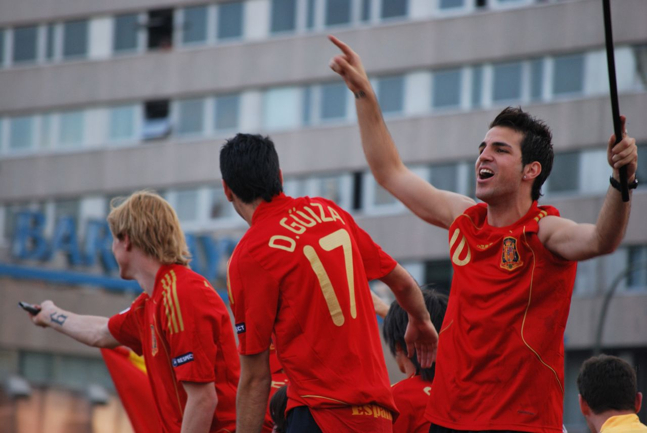 Cesc Fabregas, Dani Guiza and Fernando Torres celebrating Spain's Euro 08 championship